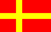 Flag of Swedish-speaking Finns.